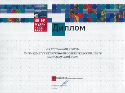 Diploma of Intermuseum 2009 exhibition